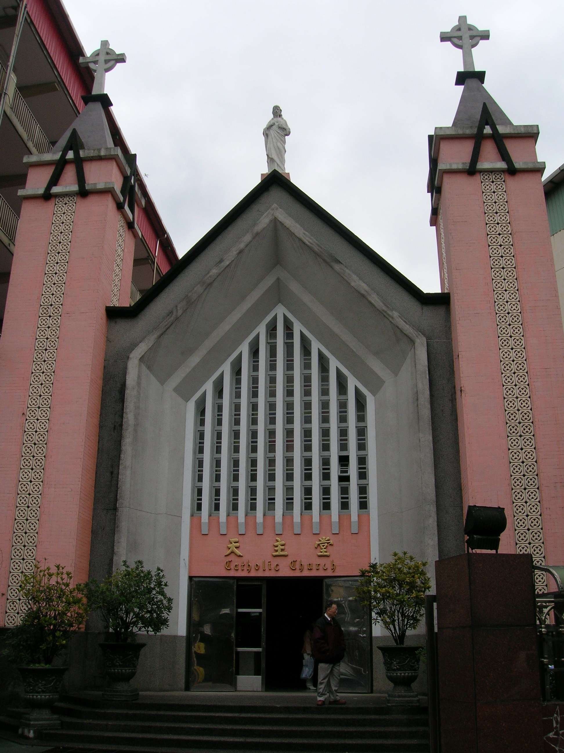 Catholic Sacred Heart of Jesus Church, Roman Catholic Archdiocese of Taipei. Zhongshan District, Keelung City.